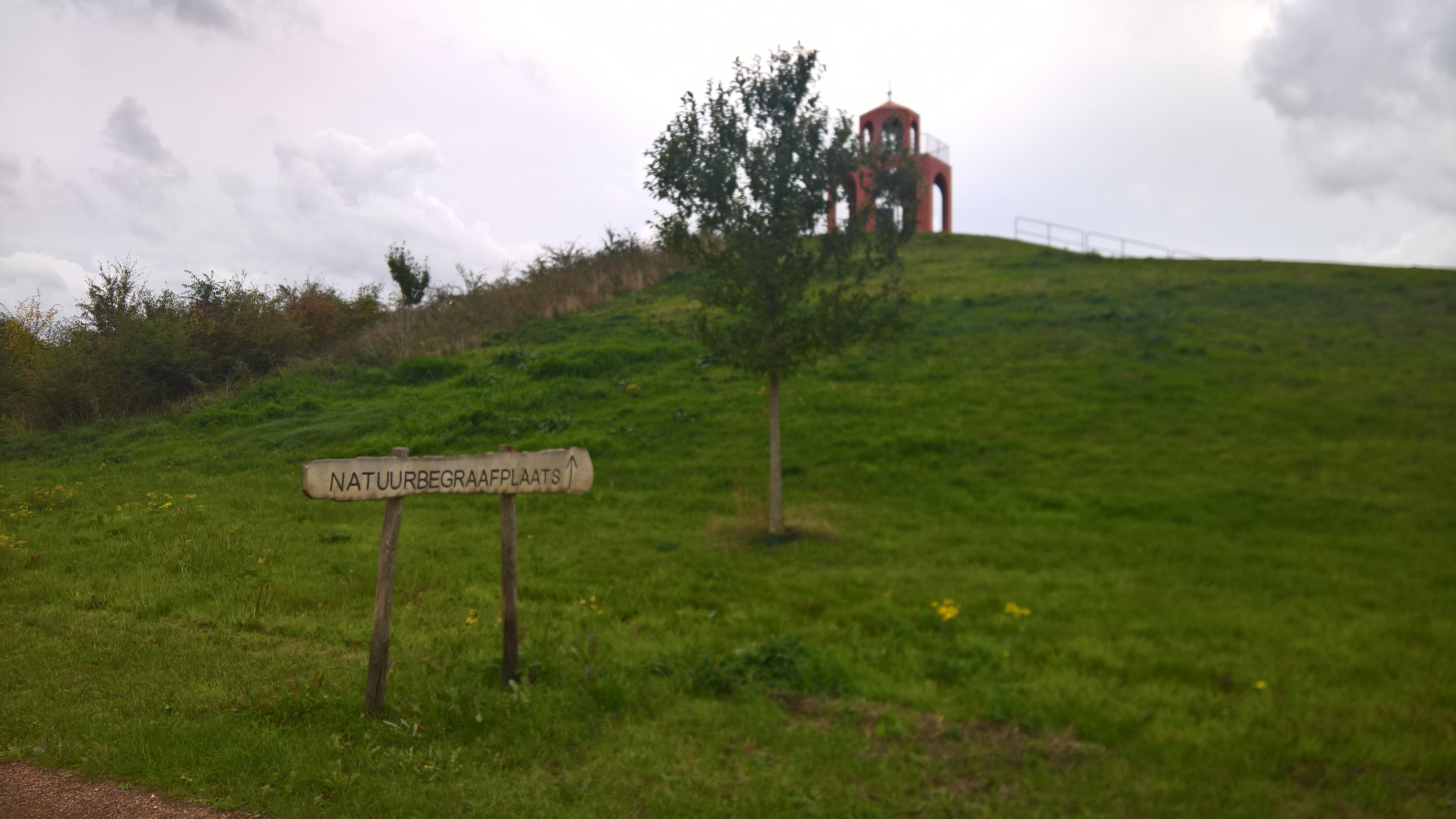 A sign for the Natuurbegraafplaats Reiderwolde.